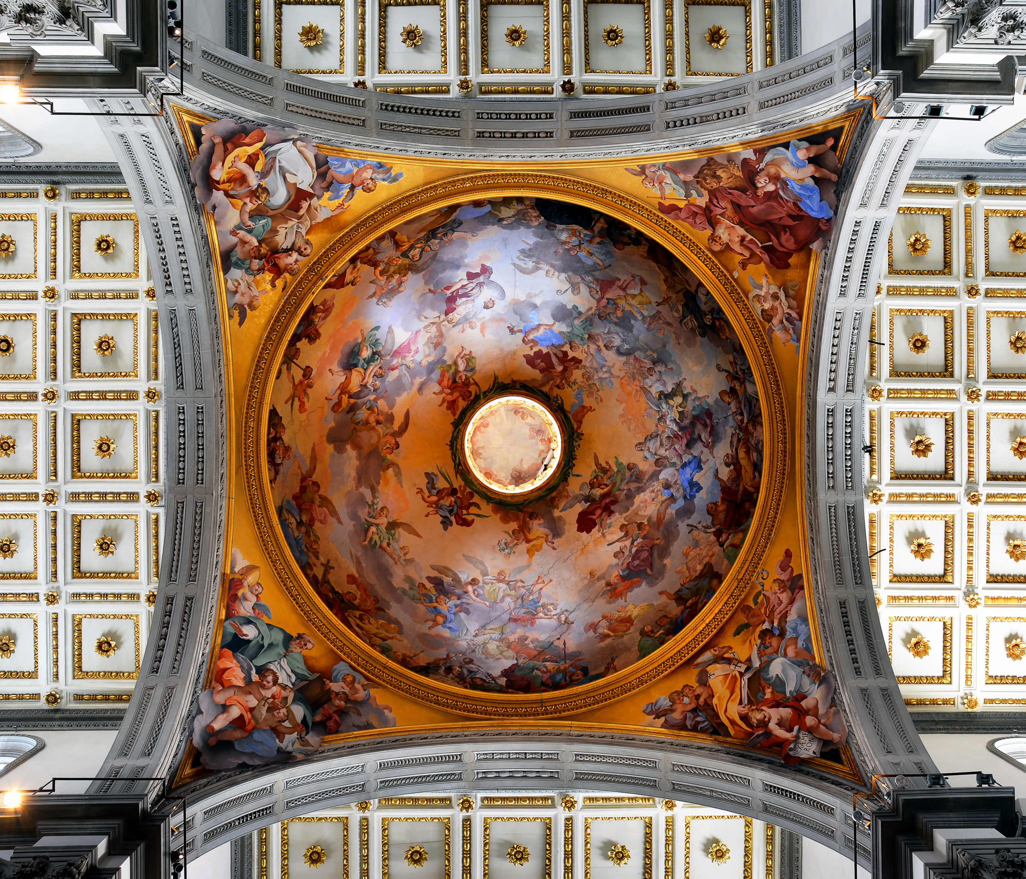 Glory of Florentine Saints on the dome in San Lorenzo (Florence)